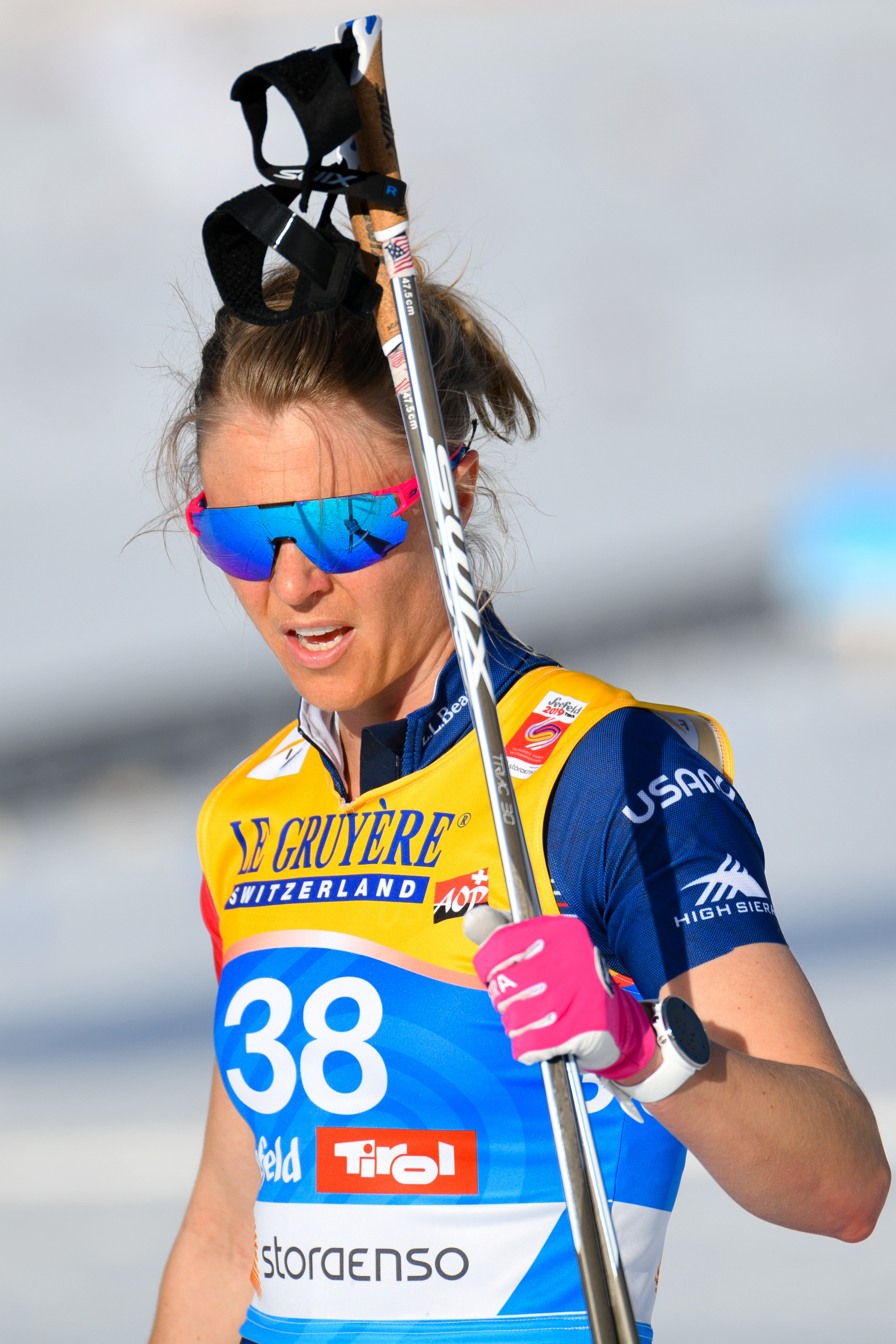 FIS Nordic Wolrd Ski Championships Seefeld 2019 - Ladies Cross Country 10km. Picture shows Sadie Bjornsen (USA).